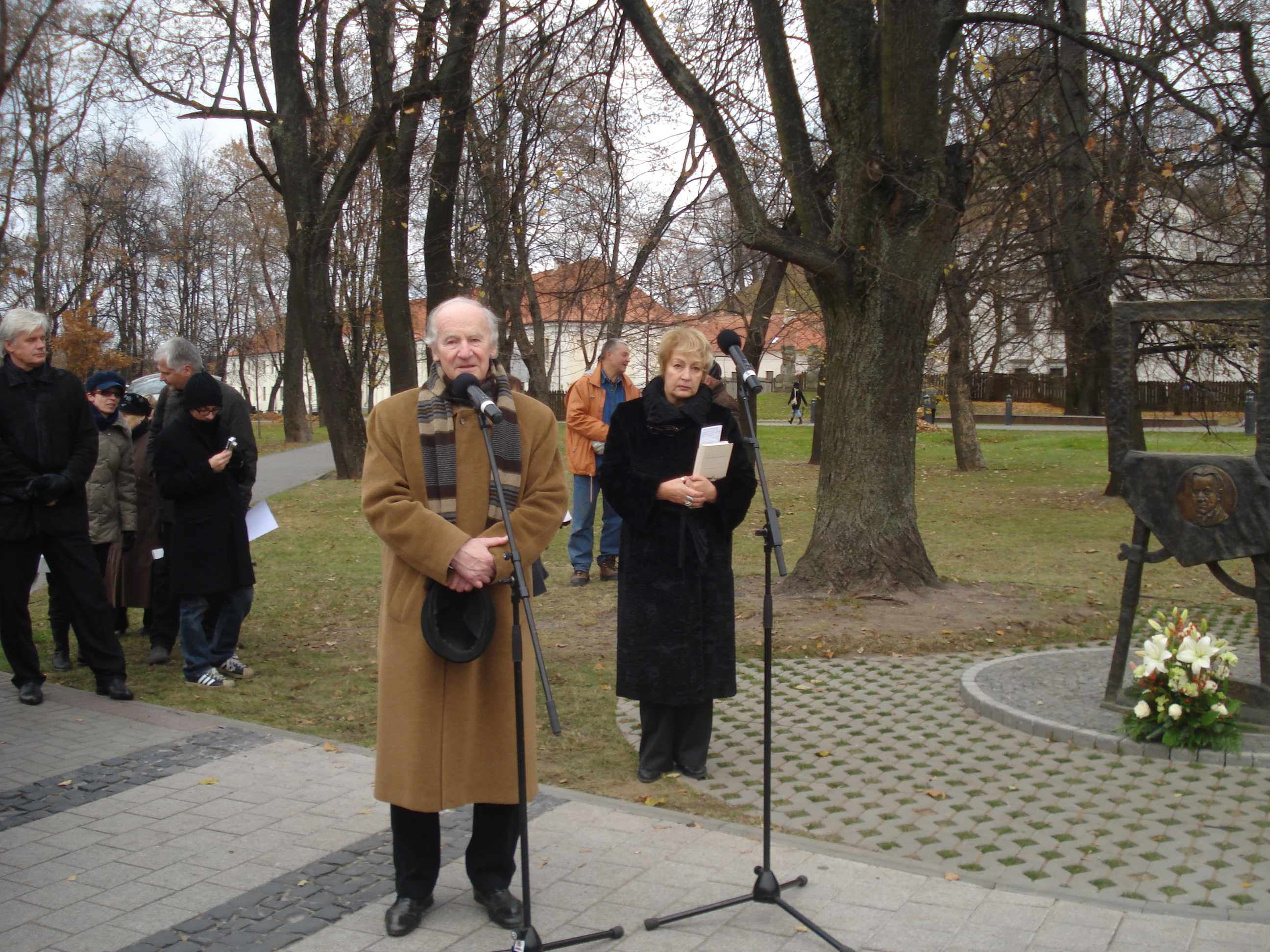 Algimantas Nasvytis (born 1928), Lithuanian architect